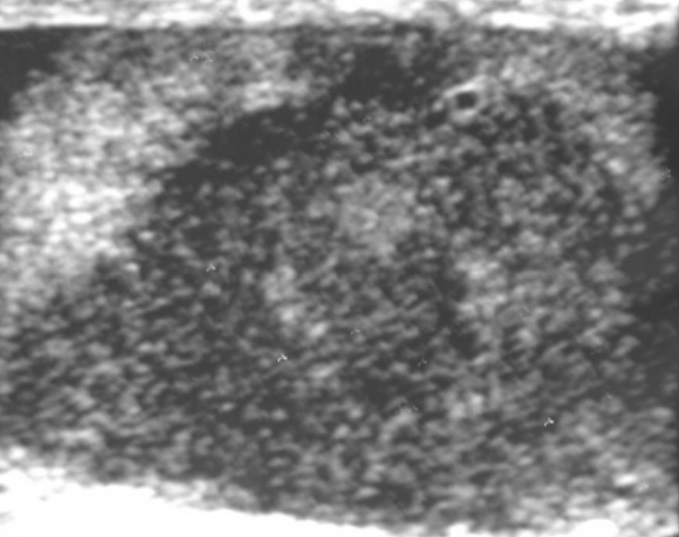 Scrotal ultrasonography of lymphoma.